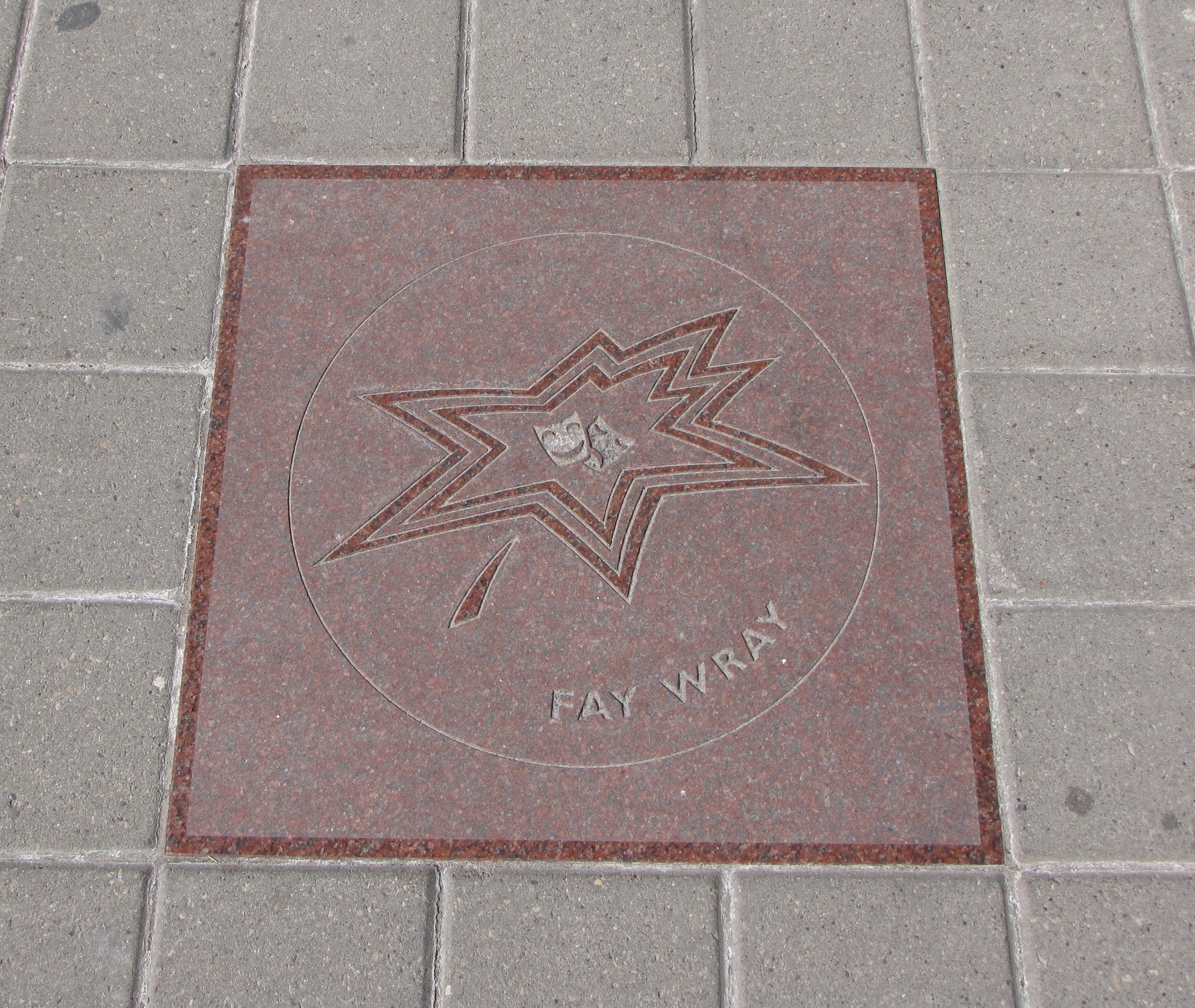 Fay Wray's star on Canada's Walk of Fame